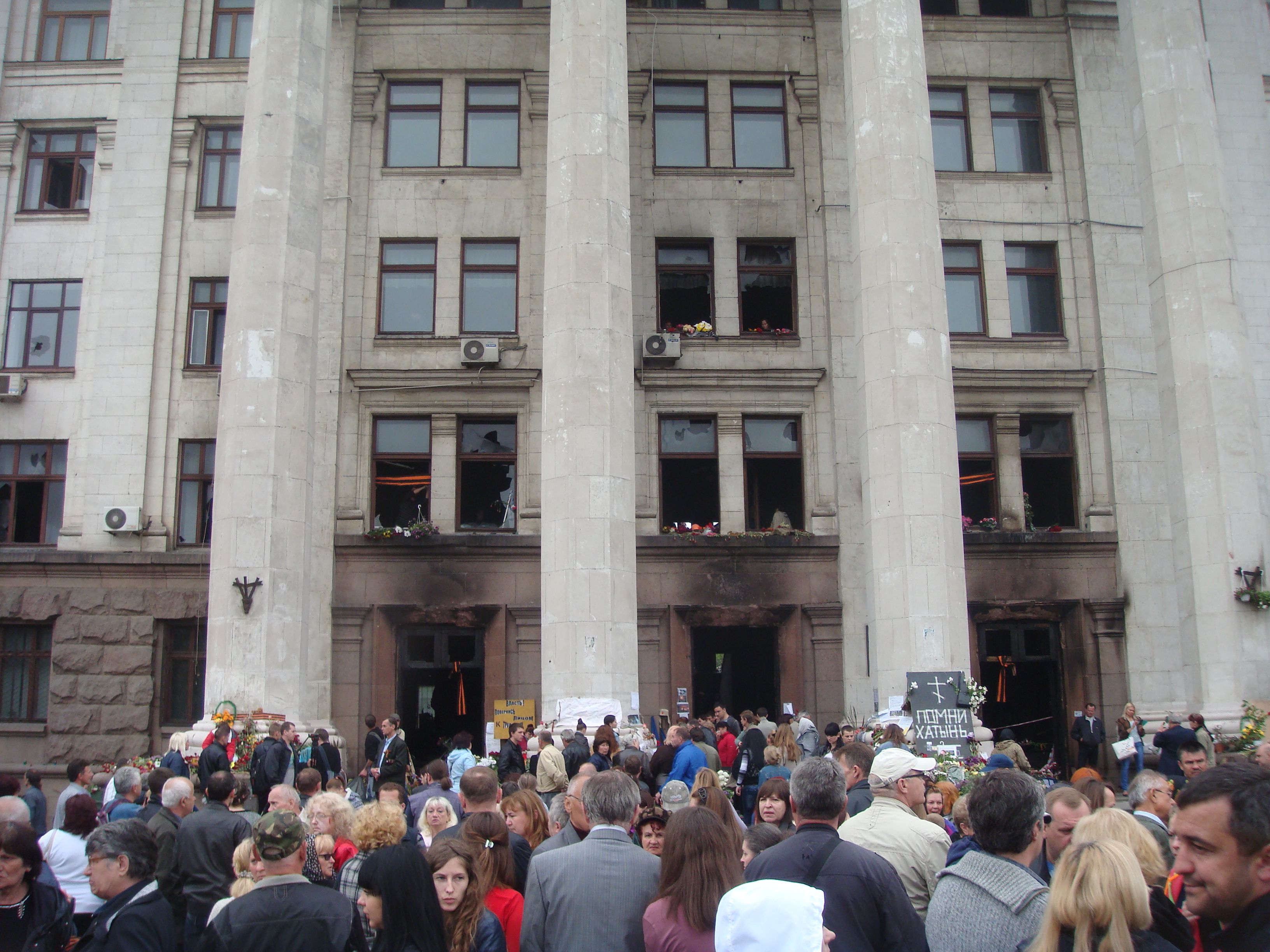 Odessa. Kulikovo Pole square. Wake ceremony on the 9th day of death of victims of Odessa clashes (May the 2nd 2014).